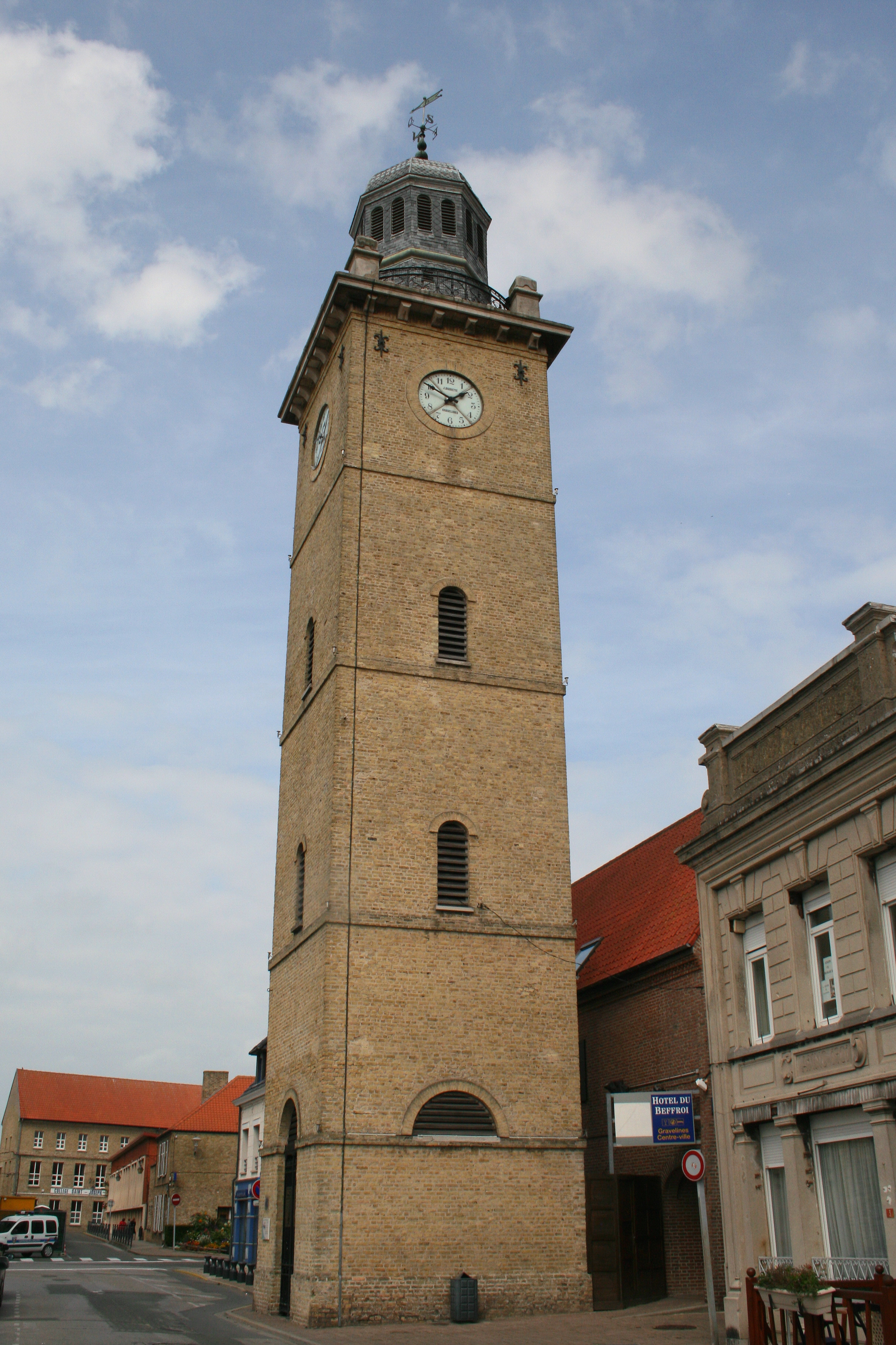 Gravelines (Nord) France, the belfry rebuilt in 1821 by the architect Morel Jean.